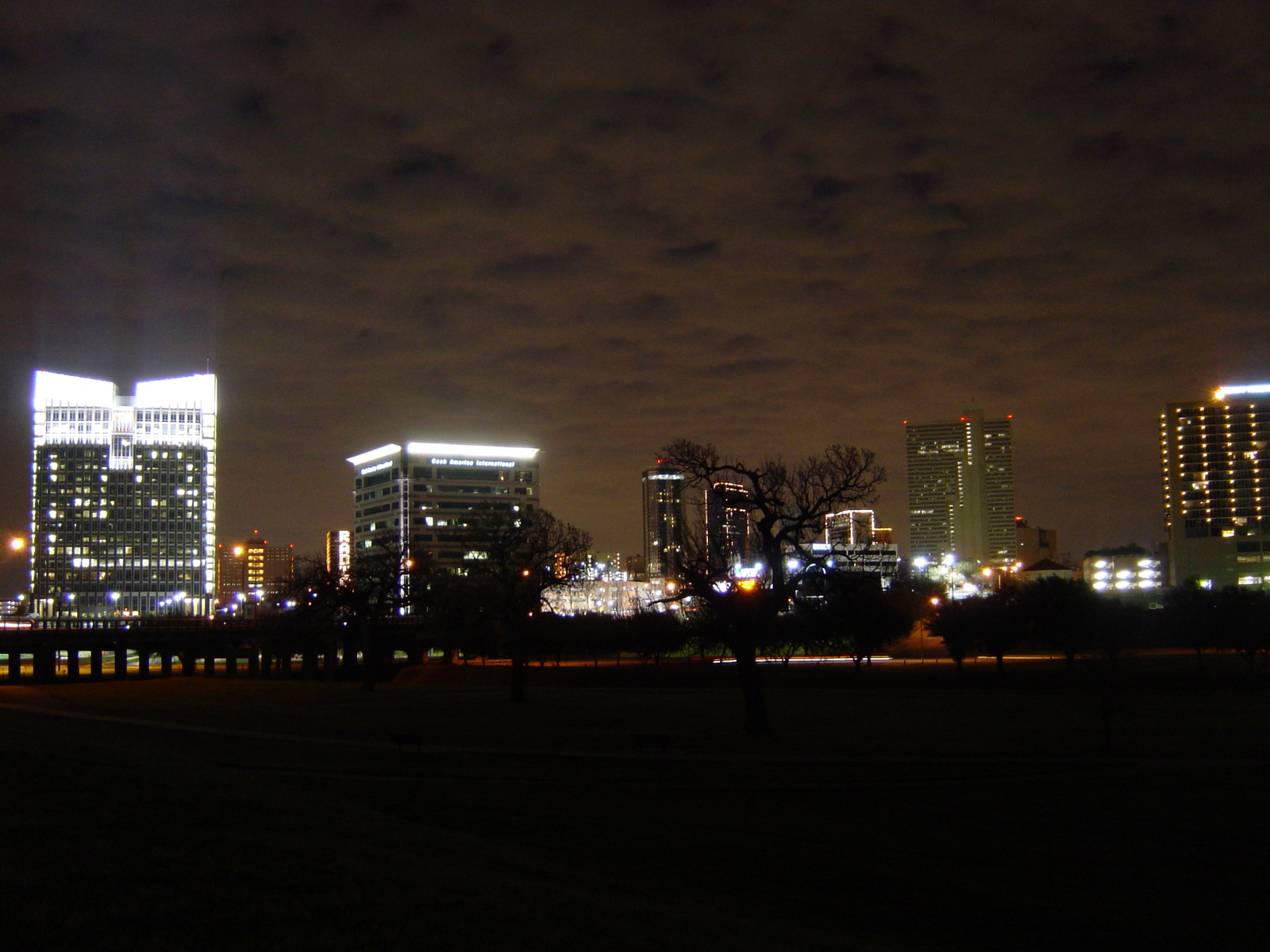 Skyline of Fort Worth at night as shot from the west side of the Trinity River